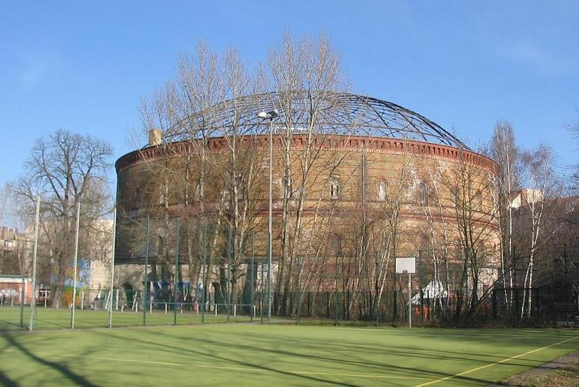 Listed Fichtebunker in the Fichtestreet, Berlin-Kreuzberg. It’s the oldest conserved Stonegasometer in Berlin. Built in 1874 by the civil engineer Johann Wilhelm Schwedler. In WWII used as air-raid shelter.